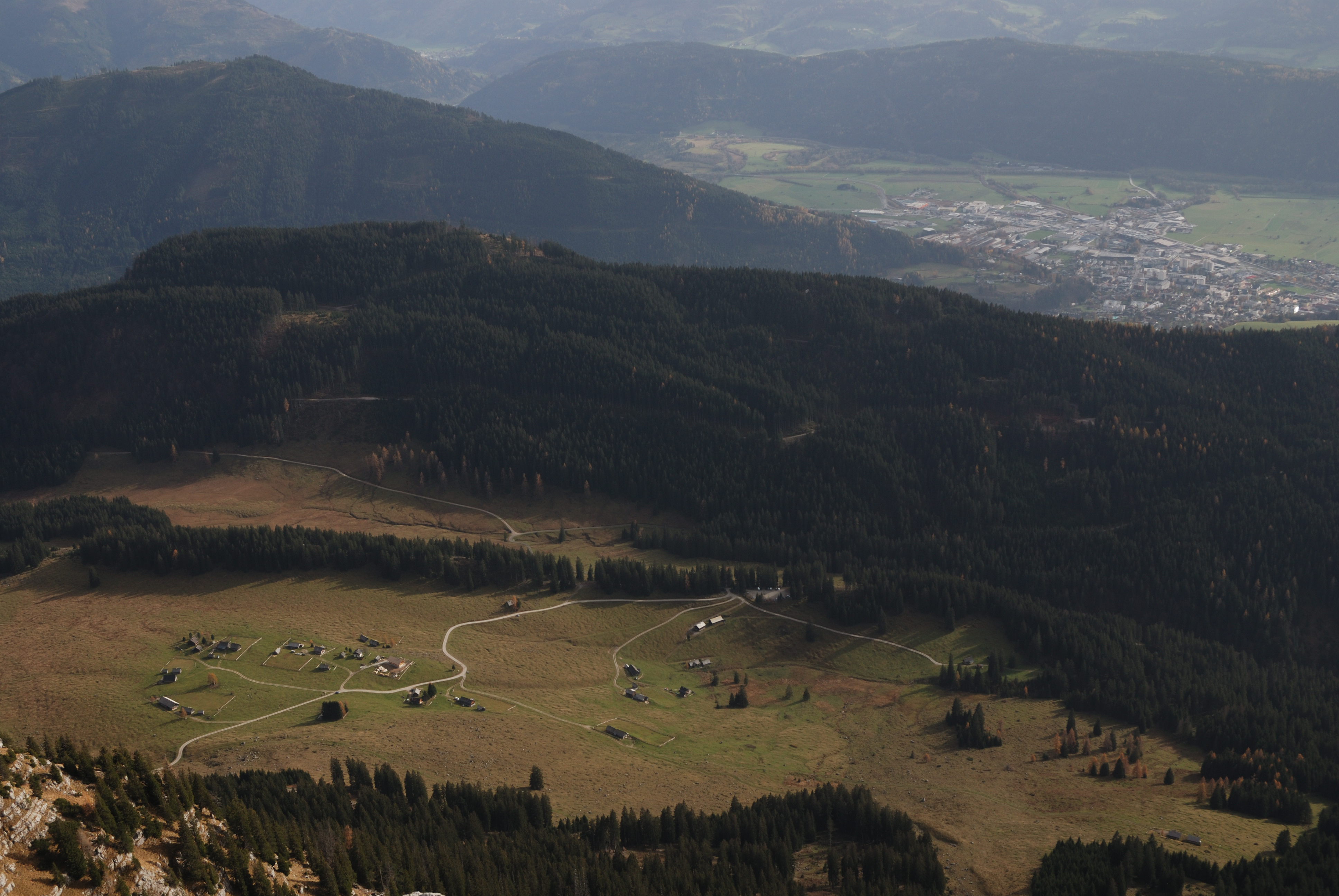 Hintereggeralm, Liezen, Styria, Austria